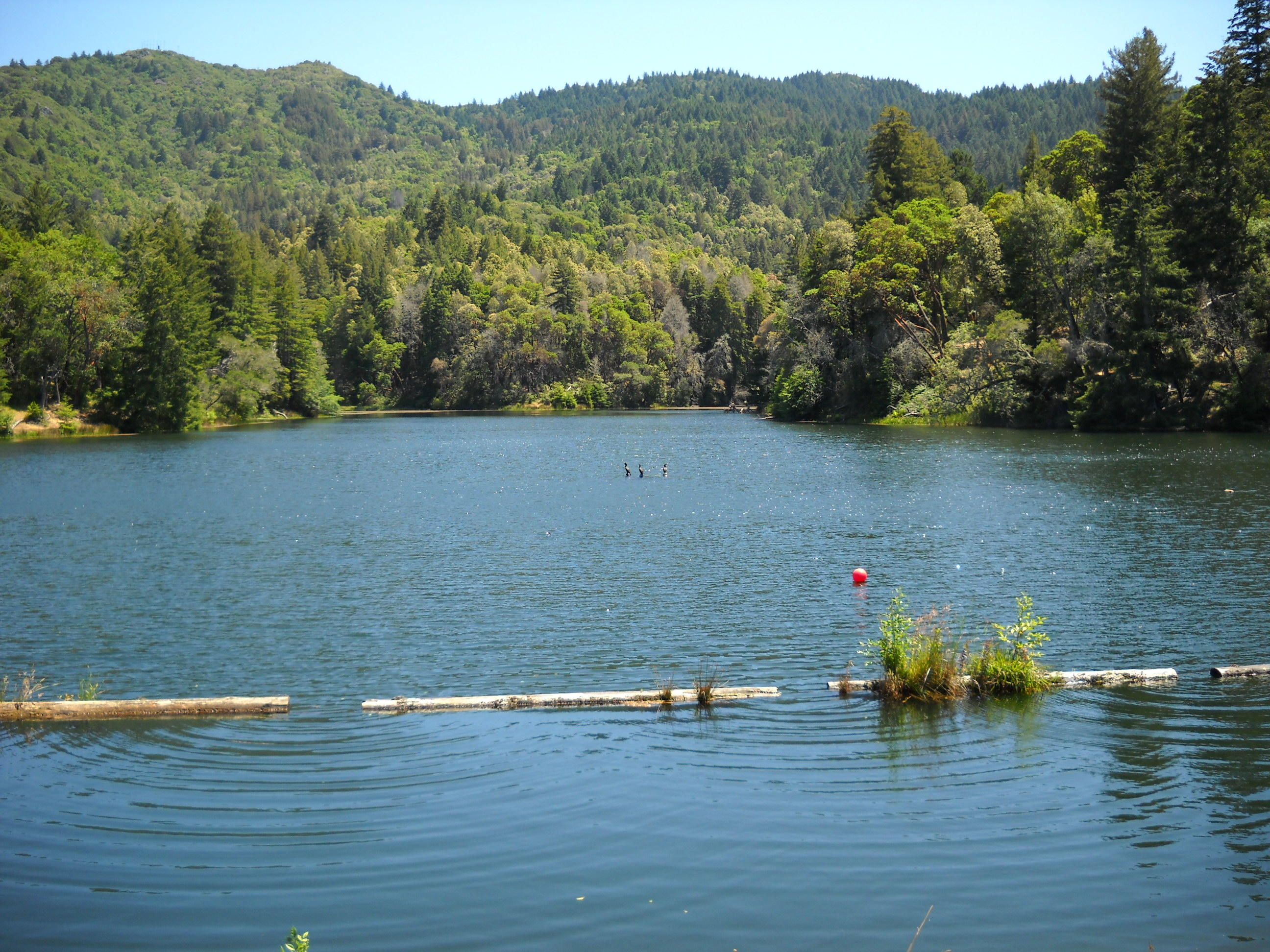 Lake Lagunitas, looking out from on top of Lagunitas Dam. Mount Tamalpias's West Peak is visible in the background.